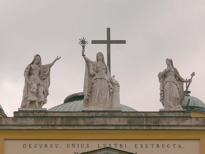 The Basilica of Eger